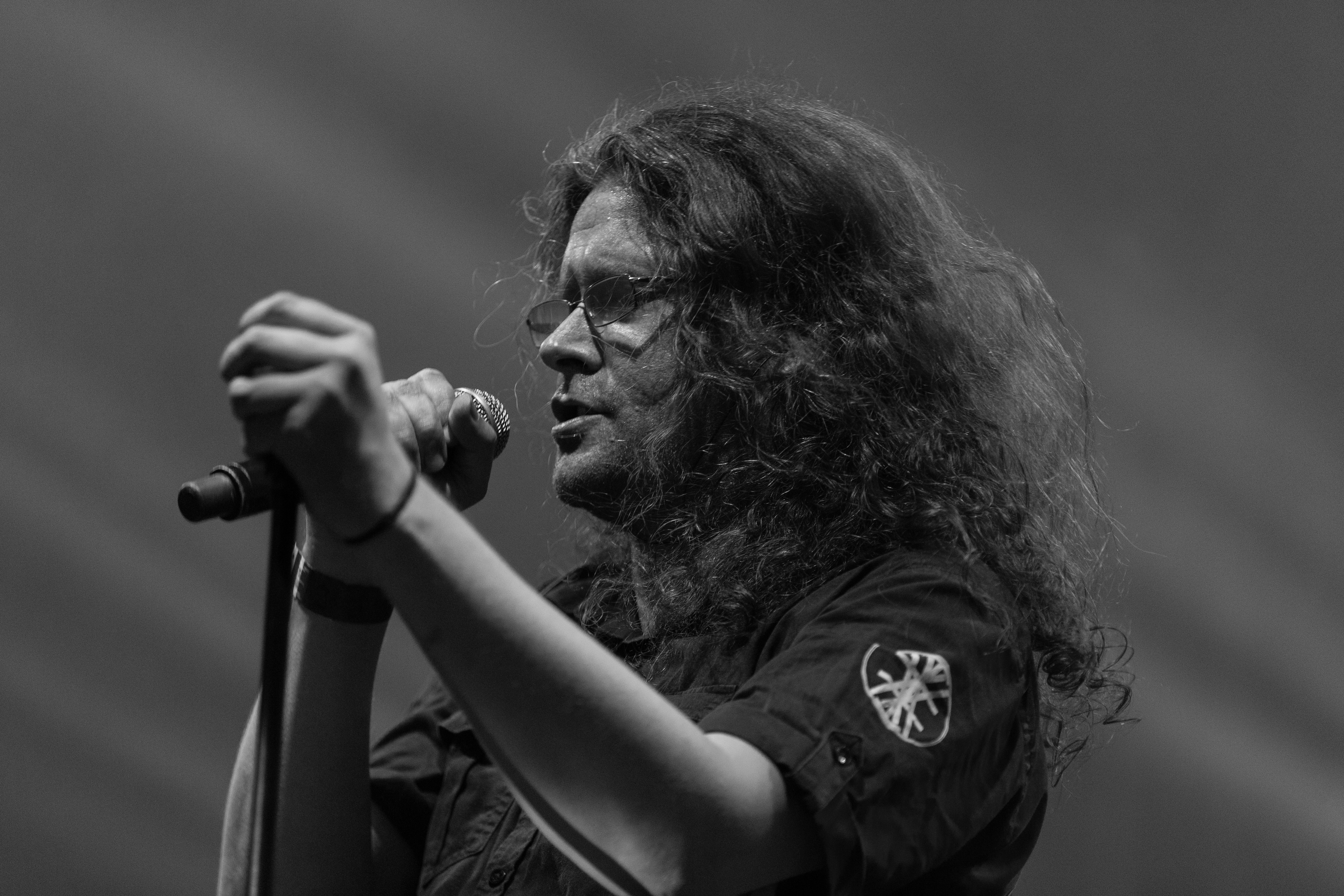 The Norwegian progressive metal band In the Woods at the Wave-Gotik-Treffen 2017 in Leipzig/Germany (Venue Kohlrabizirkus).